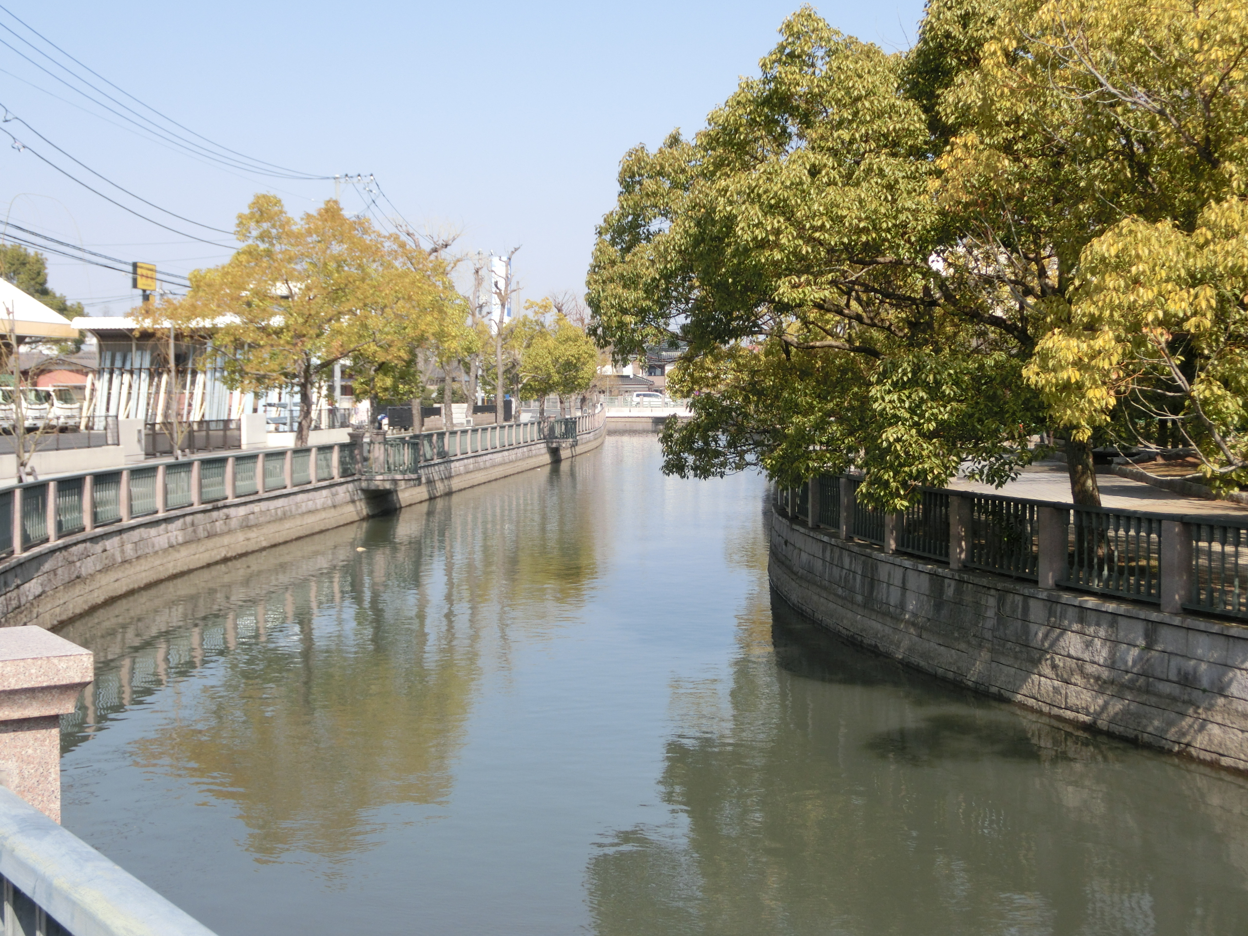 Bizen-bori